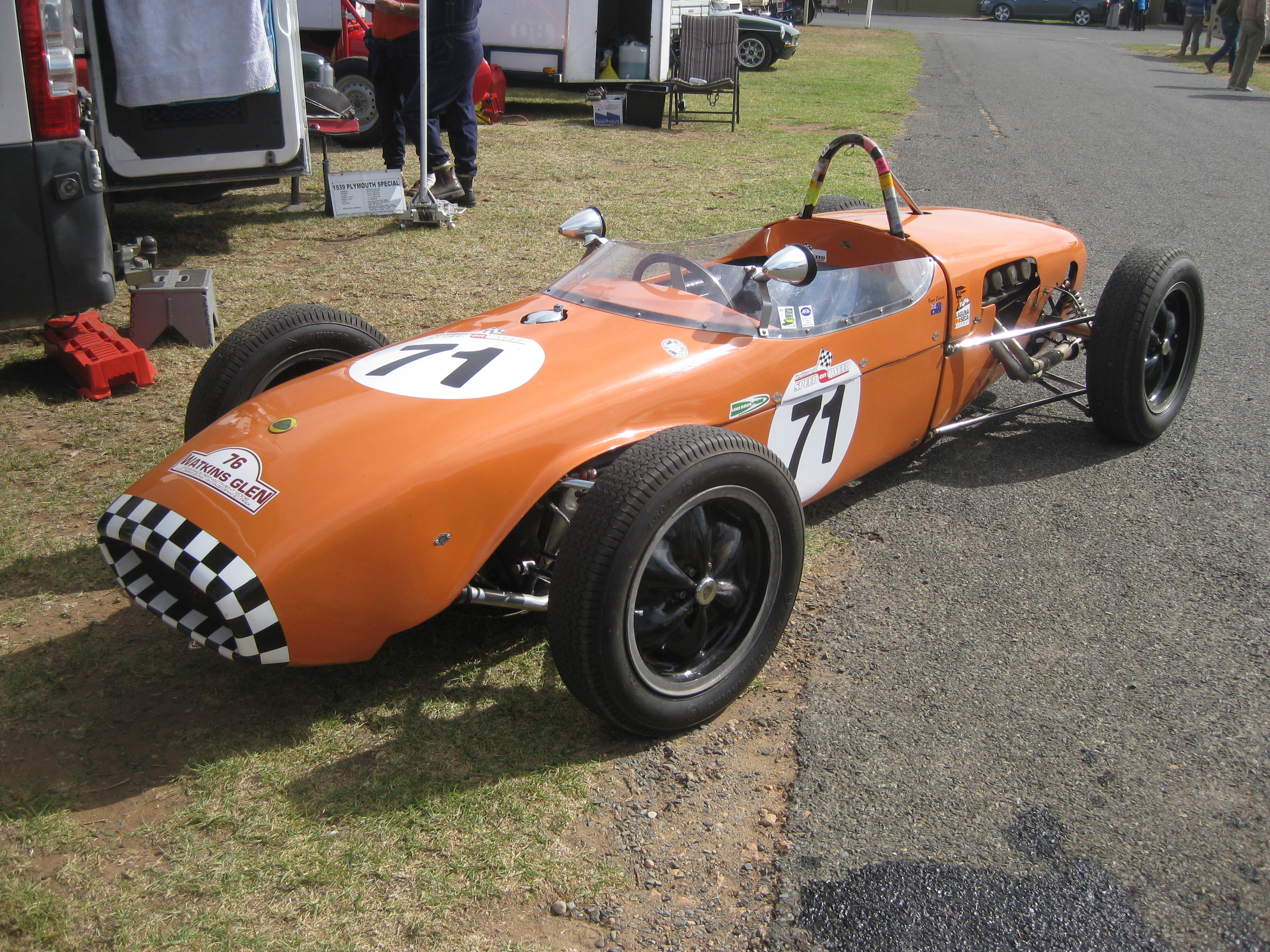 The Lotus 18 Formula Junior of Roger Ealand at Mallala Motor Sport Park on 7 April 2012